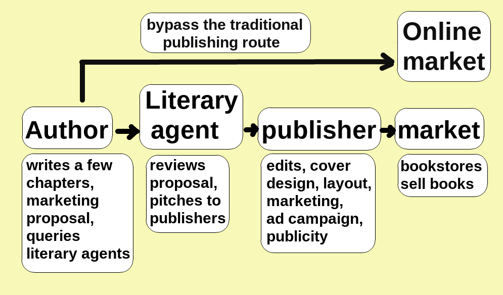 Chart showing how self publishing allows authors to bypass publishers and bookstores to sell directly to the public.